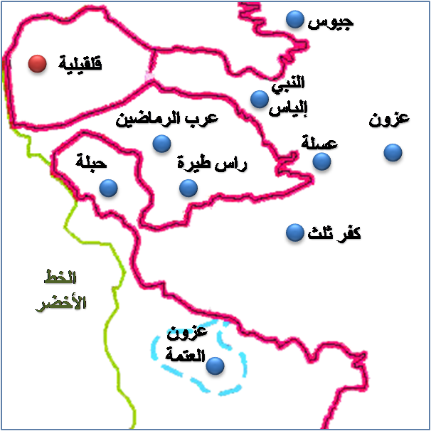 Self-made map showing Qalqilyah and the villages of Qalqilyah besieged by the Israeli Security Wall